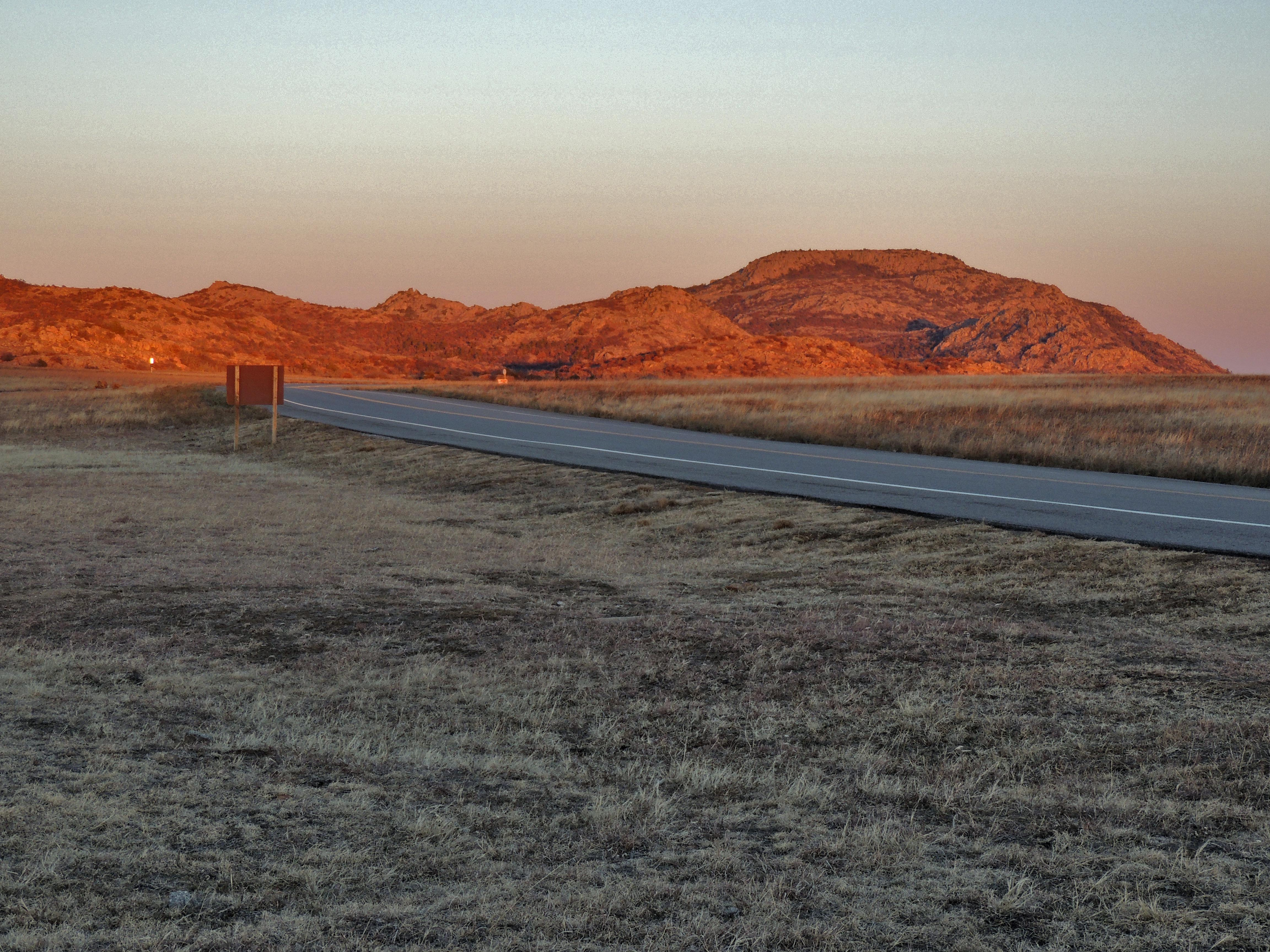 Mt. Scott - Oklahoma Mt. Scott at sunset.